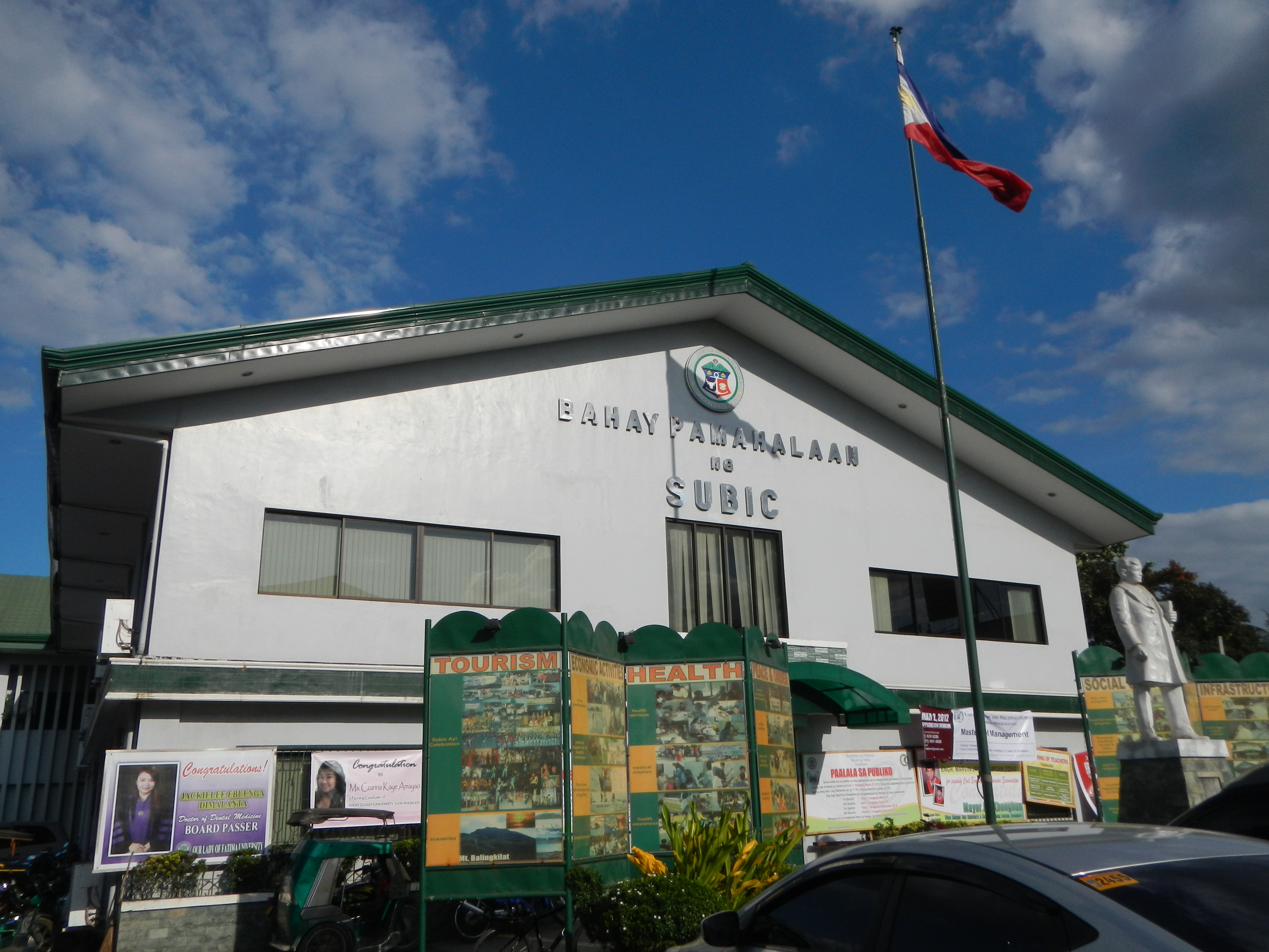 Subic, Zambales[1] Subic is a municipality in the province of Zambales, located along the northern coast of Subic Bay in the Philippines.[2]